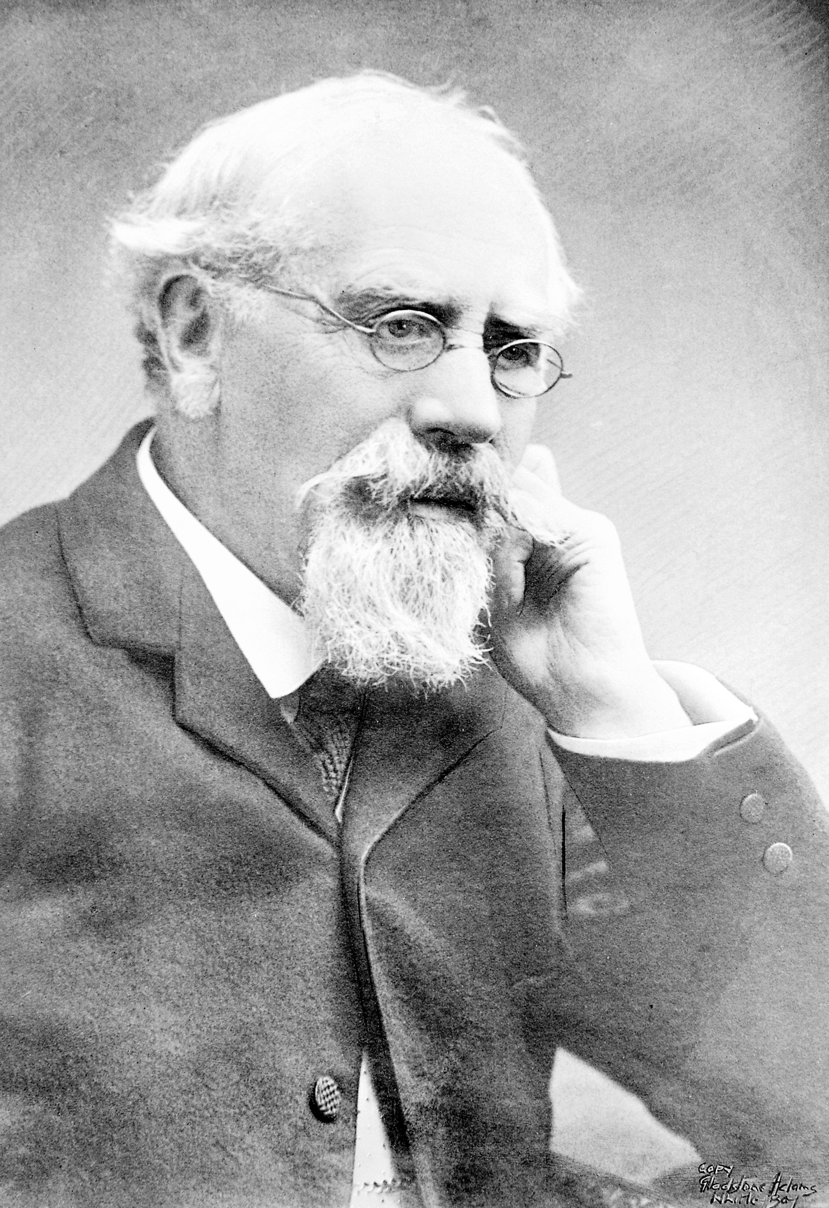 Portrait of Alexander Wynter Blyth, from the photograph in the Society Iconographic Collections Keywords: A. Wynter Blyth; president: society of medical officers